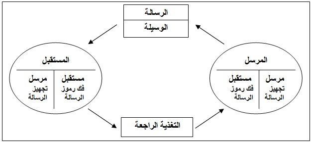 Description نموذج الاتصال التعليمي الحديث Date27/2/2012SourcenullAuthordeaa_itPermission (Reusing this file) null Other versions null نموذج الاتصال التعليمي الحديث